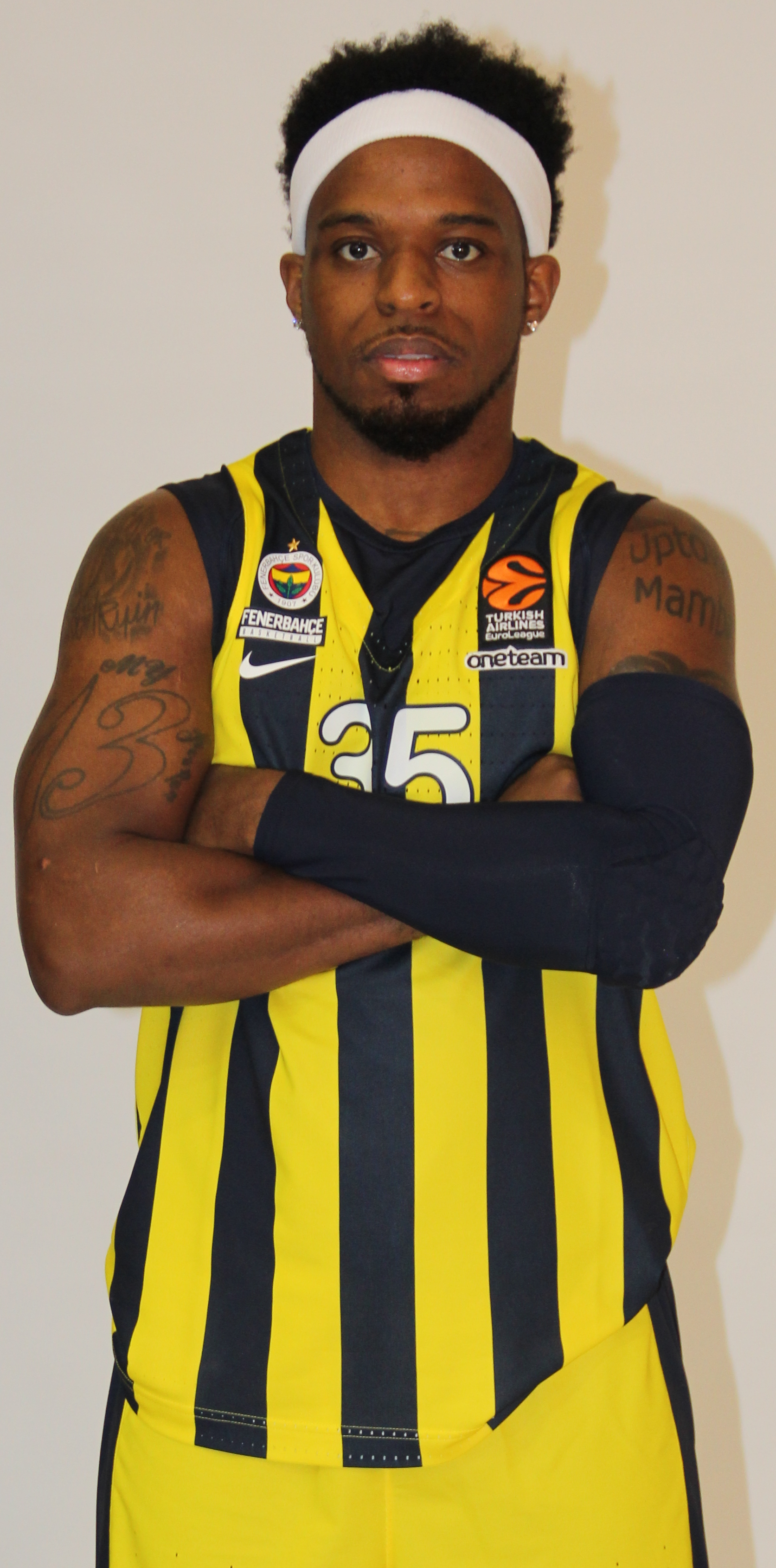 Bobby Dixon Fenerbahçe Basketball Media Day 20180925